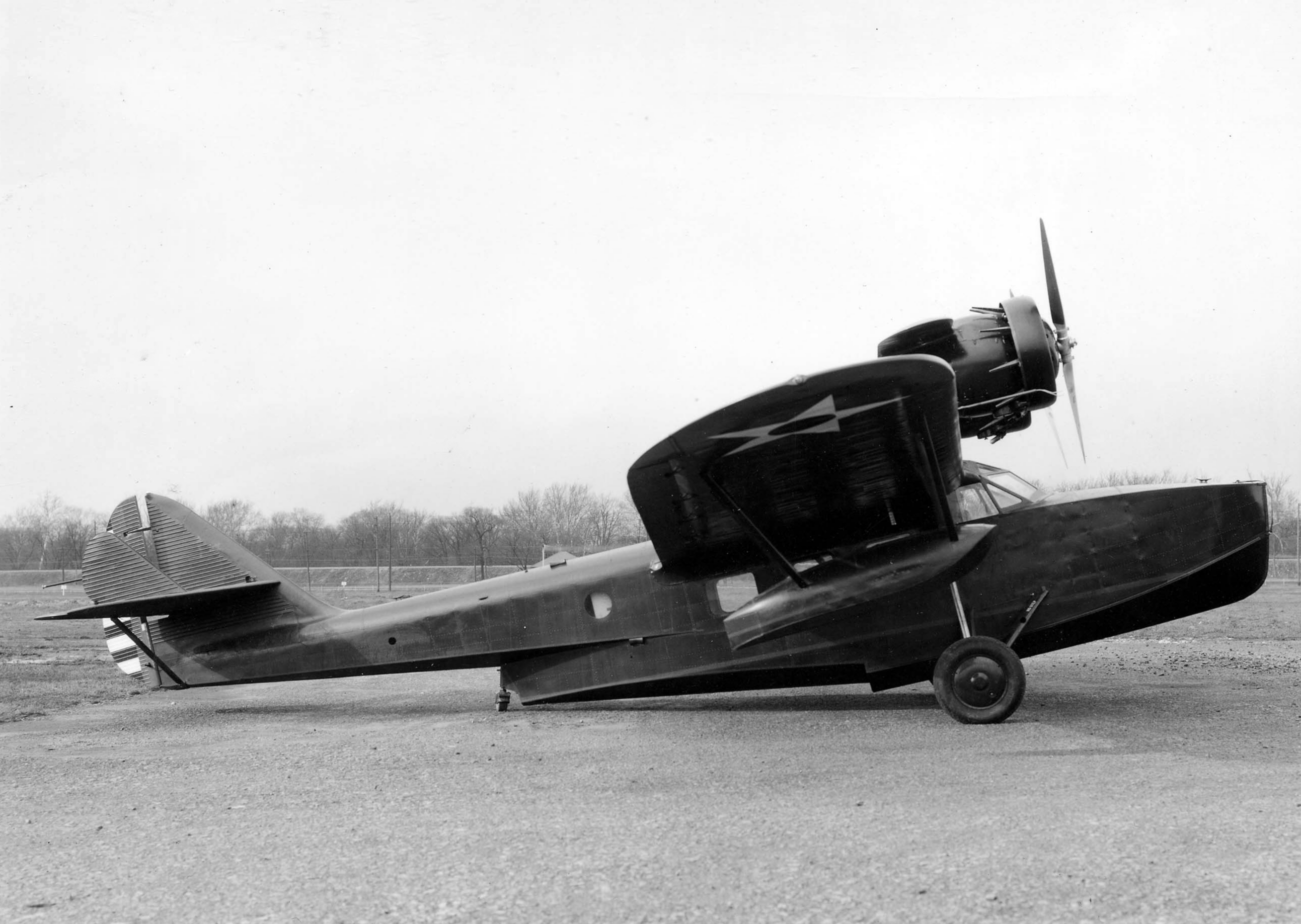 A U.S. Army Air Corps Douglas OA-3 Dolphin amphibian. The type was originally designated Y1C-21 in 1931, then C-21 until 1933. Three aircraft were procured (s/n 32-379 to 32-286).